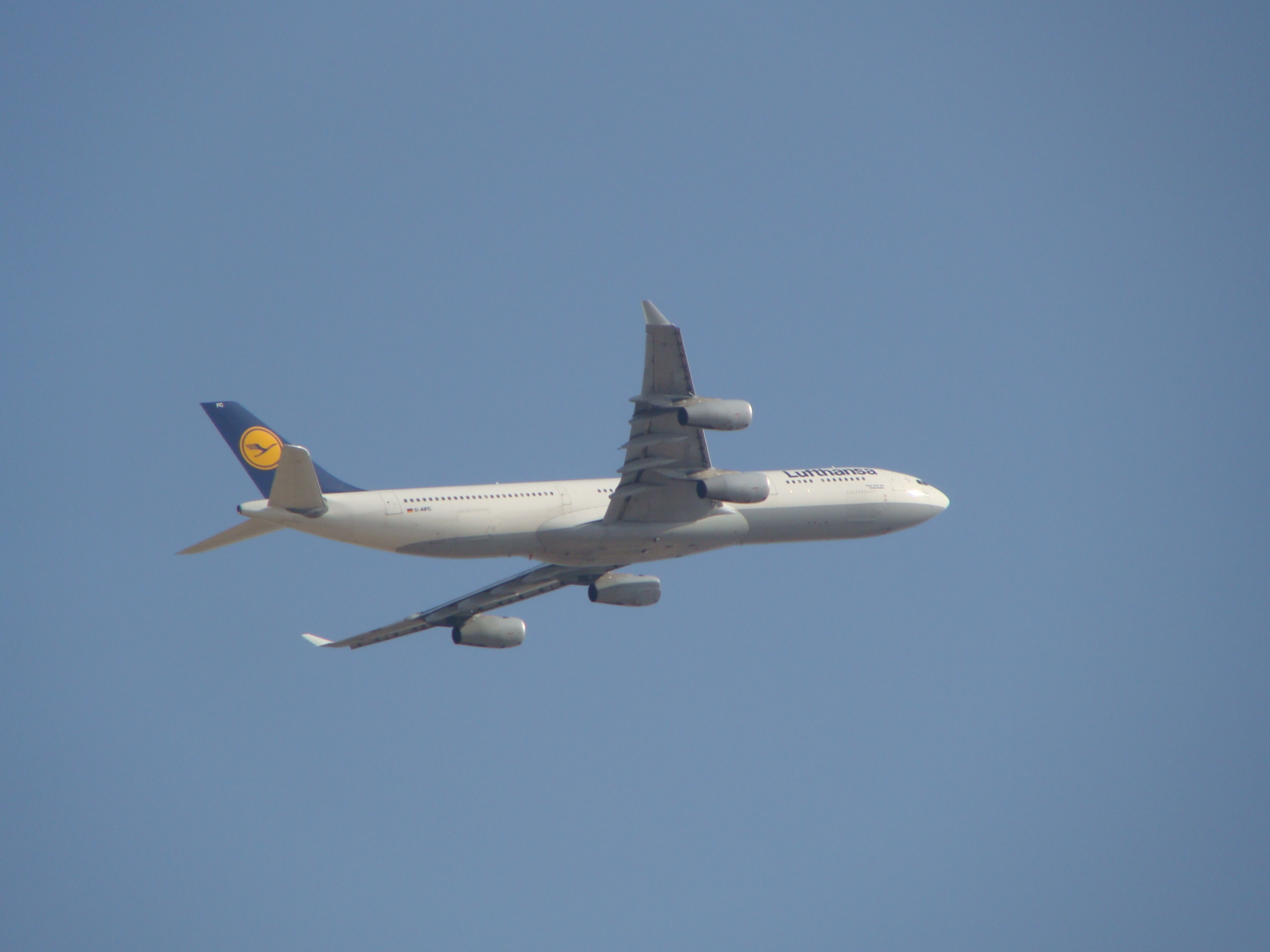 Lufthansa - Airbus A340 after leaving Cairo Int. Airport.